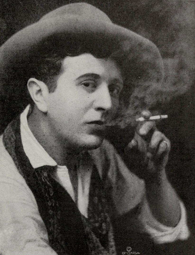 Irving Camisky (October 9, 1888 - April 18, 1959) was an American movie actor, director, producer and writer. This is a publicity image published in a 1914 magazine.